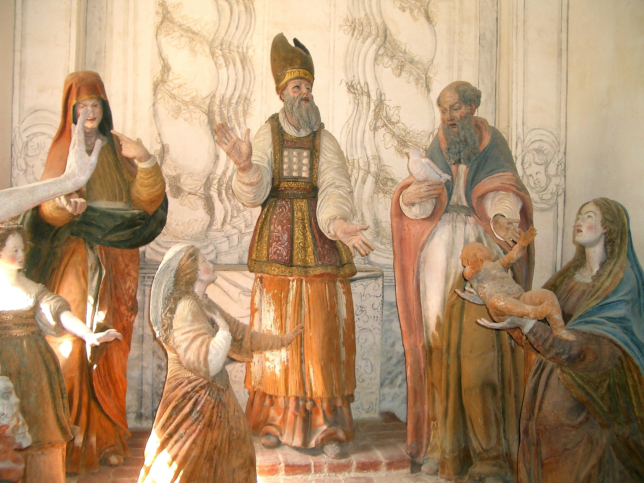 Sacro Monte of Graglia, Chapel of the Candlemas, Graglia (Biella), Unknown sculptor, clay statues, XVII century